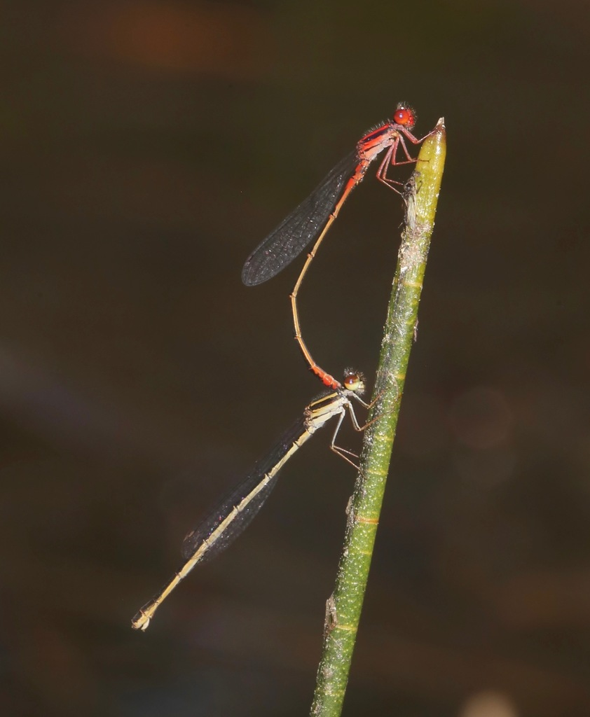 Cherry Bluet (Enallagma concisum), Santa Rosa County, FL, USA